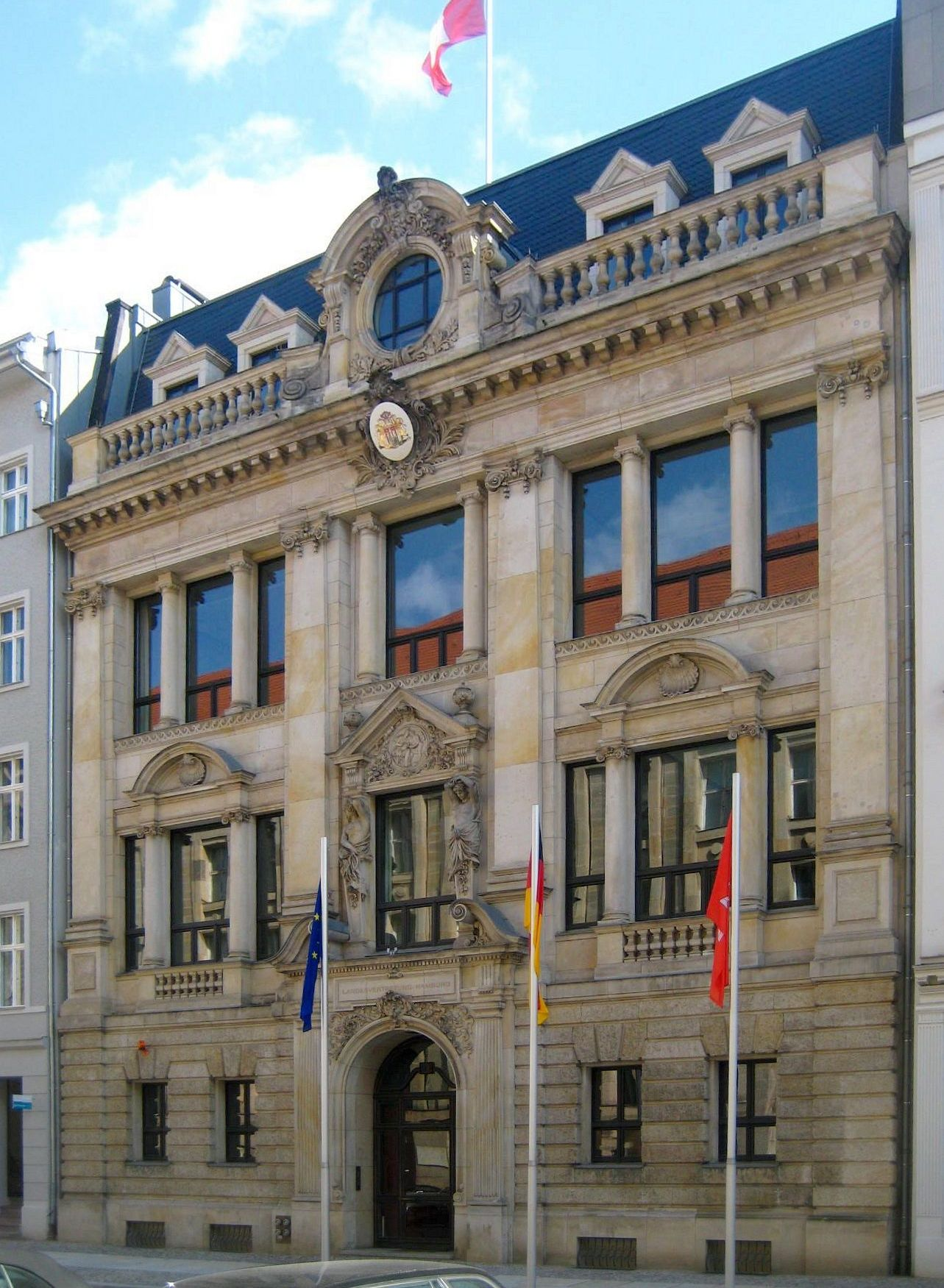 Representation of the state of Hamburg at Jägerstraße No. 2-3 in Berlin-Mitte. The buildings was constructed from 1892 to 1893 as "Club of Berlin" to a design by the architects Heinrich Joseph Kayser and Karl von Großheim. It has been dedicated as a historic landmark.